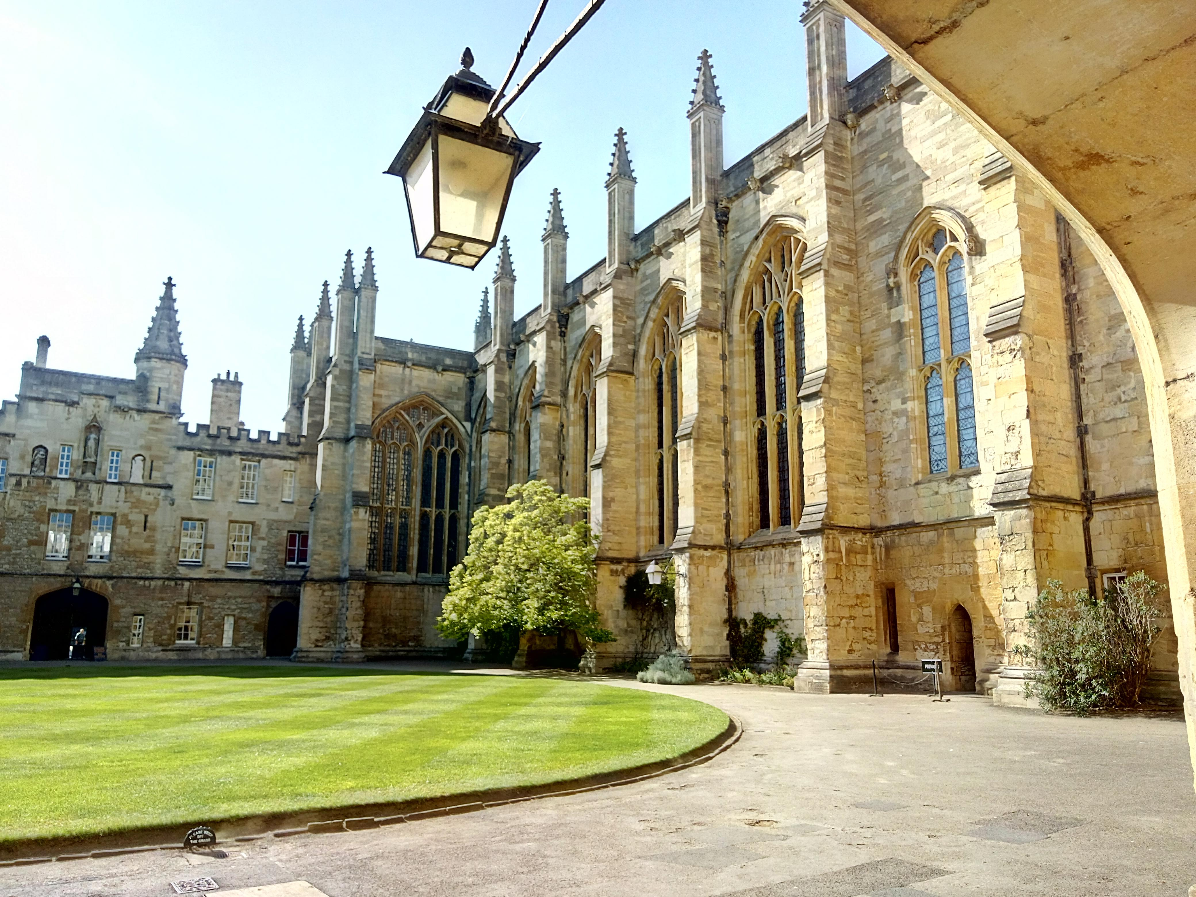 New College front quad view from lantern